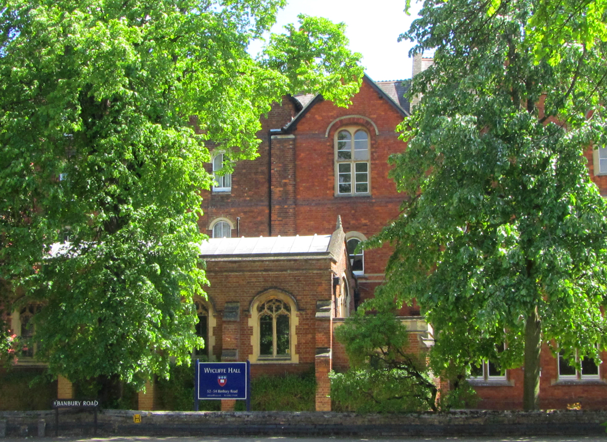 Wycliffe Hall